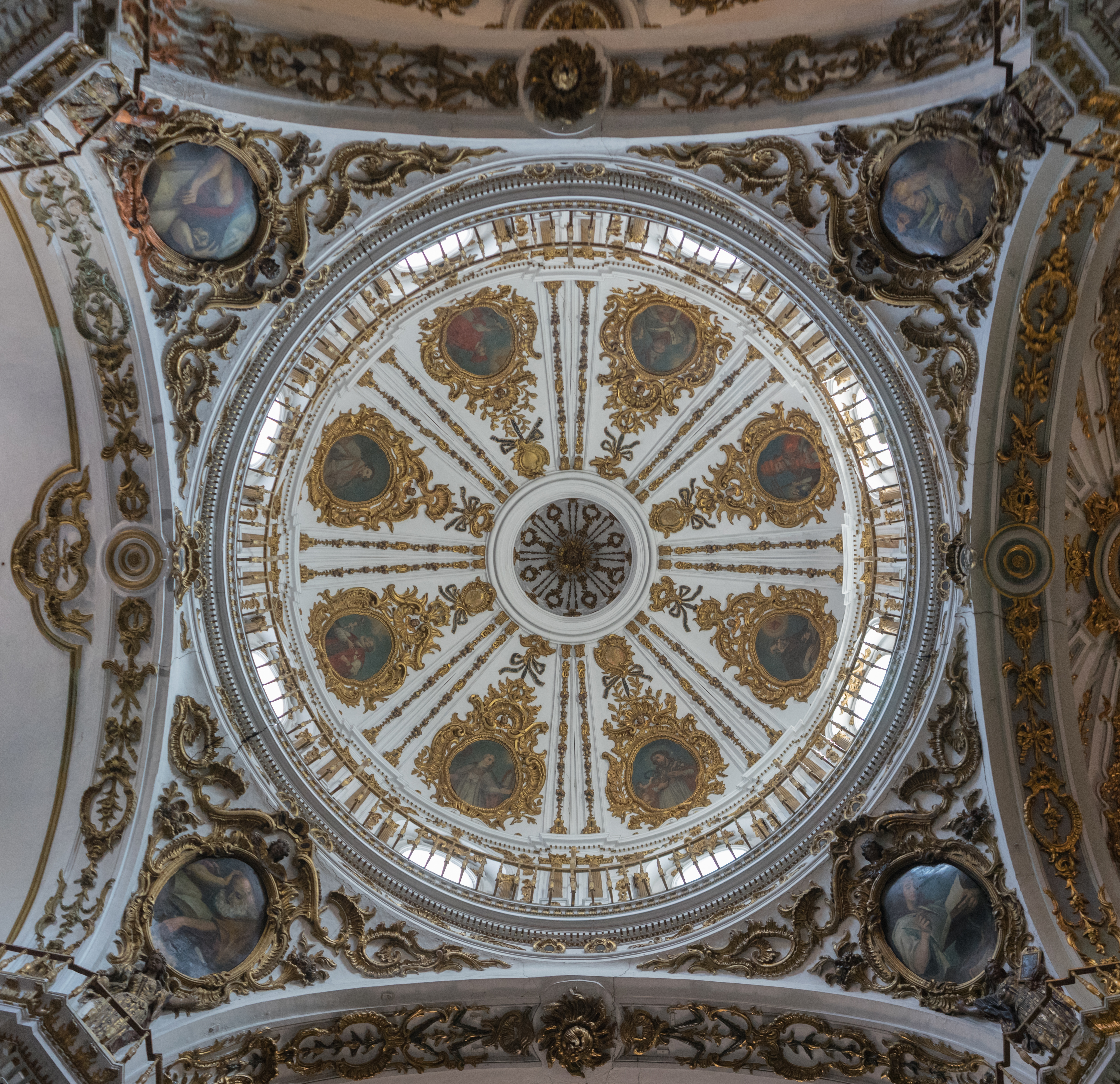 Dome of Church of the Holy Martyrs, Málaga